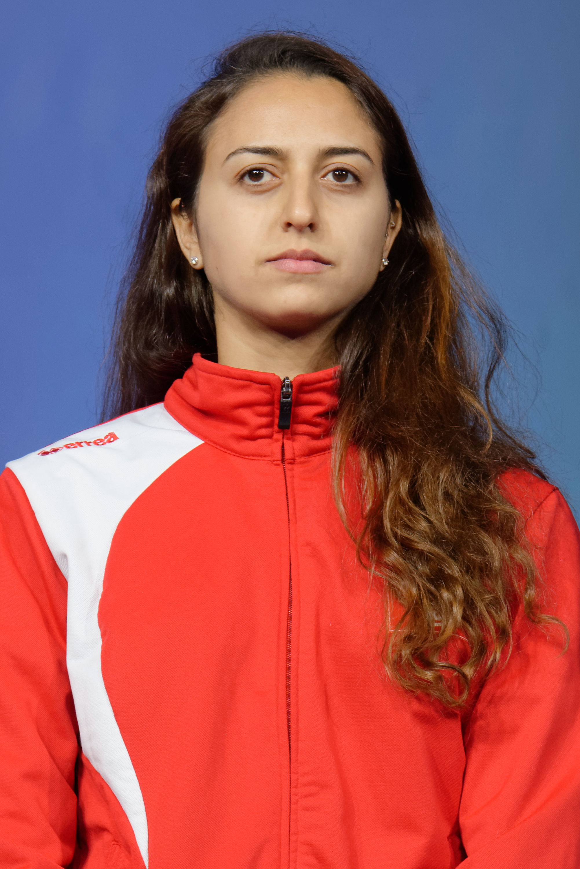 Tunisia's Sarra Besbes at the medal ceremony of the women's épée event at the 2015 World Fencing Championships on 15 July 2014 at the Olympic Stadium in Moscow.